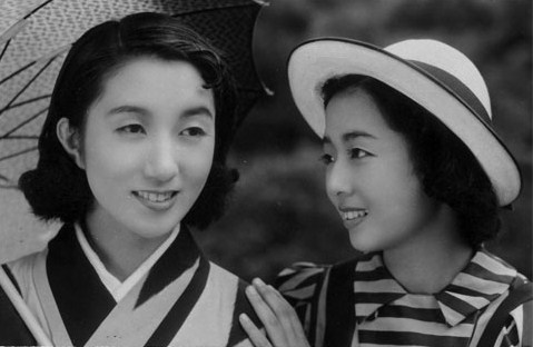 Mitsuko Miura (left) and Kyoko Asagiri in 1940 Japanese movie The hidden heart